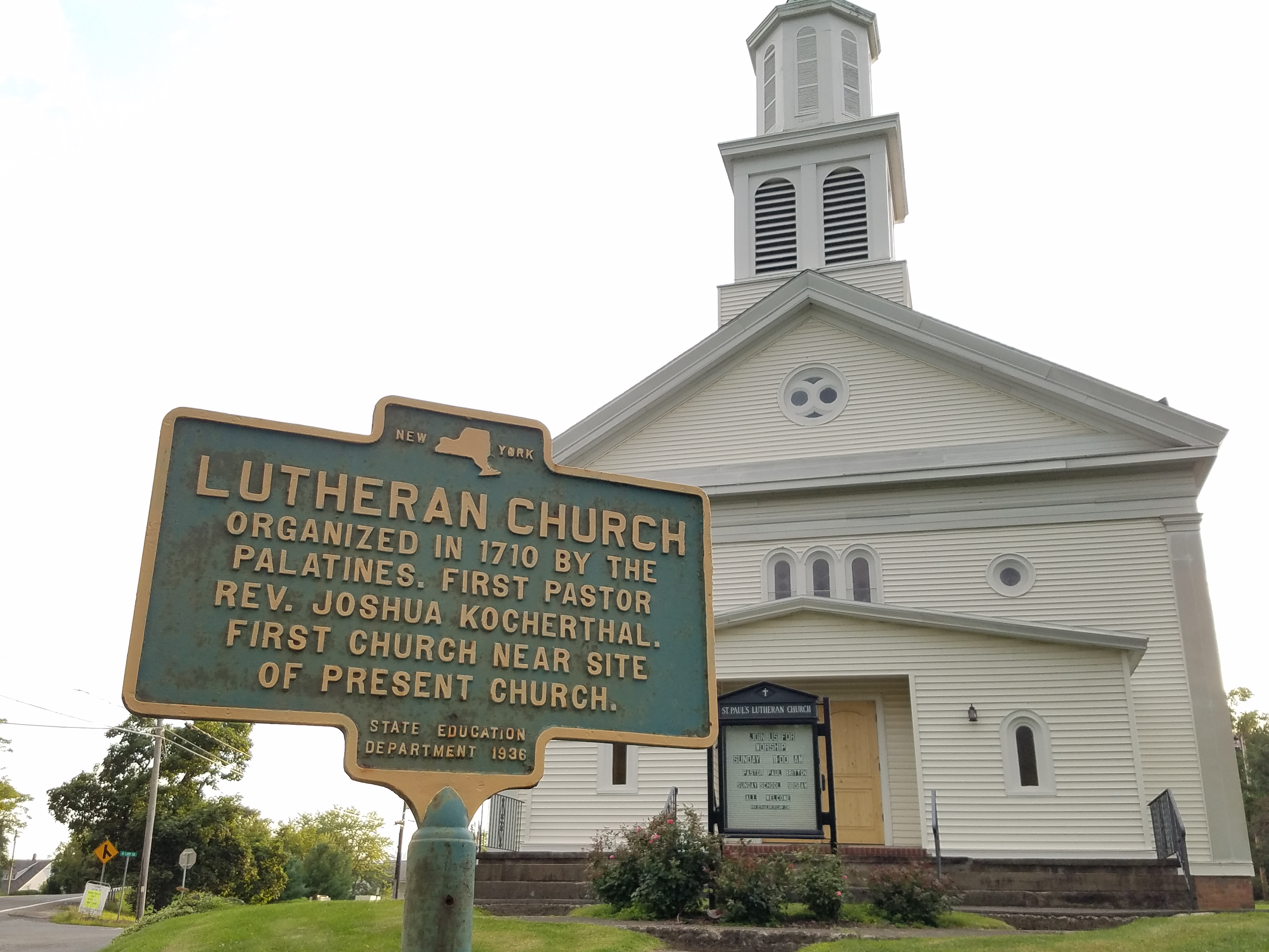 New York State historic marker for the Lutheran Church in the West Camp part of Saugerties, New York.